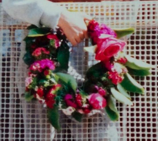 Flower creation used during 1st May 's tradition in Greece